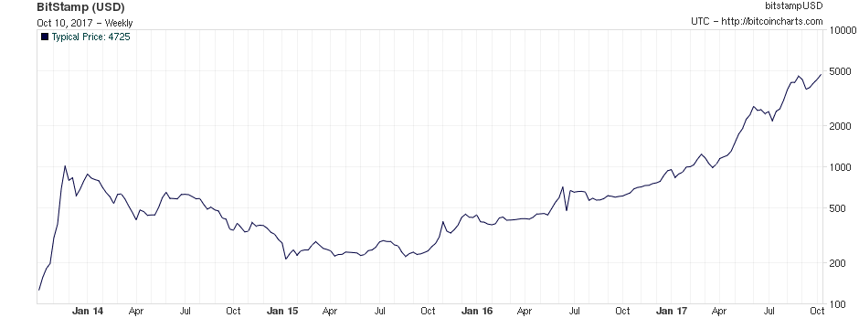 The weekly BitstampUSD exchange rate.